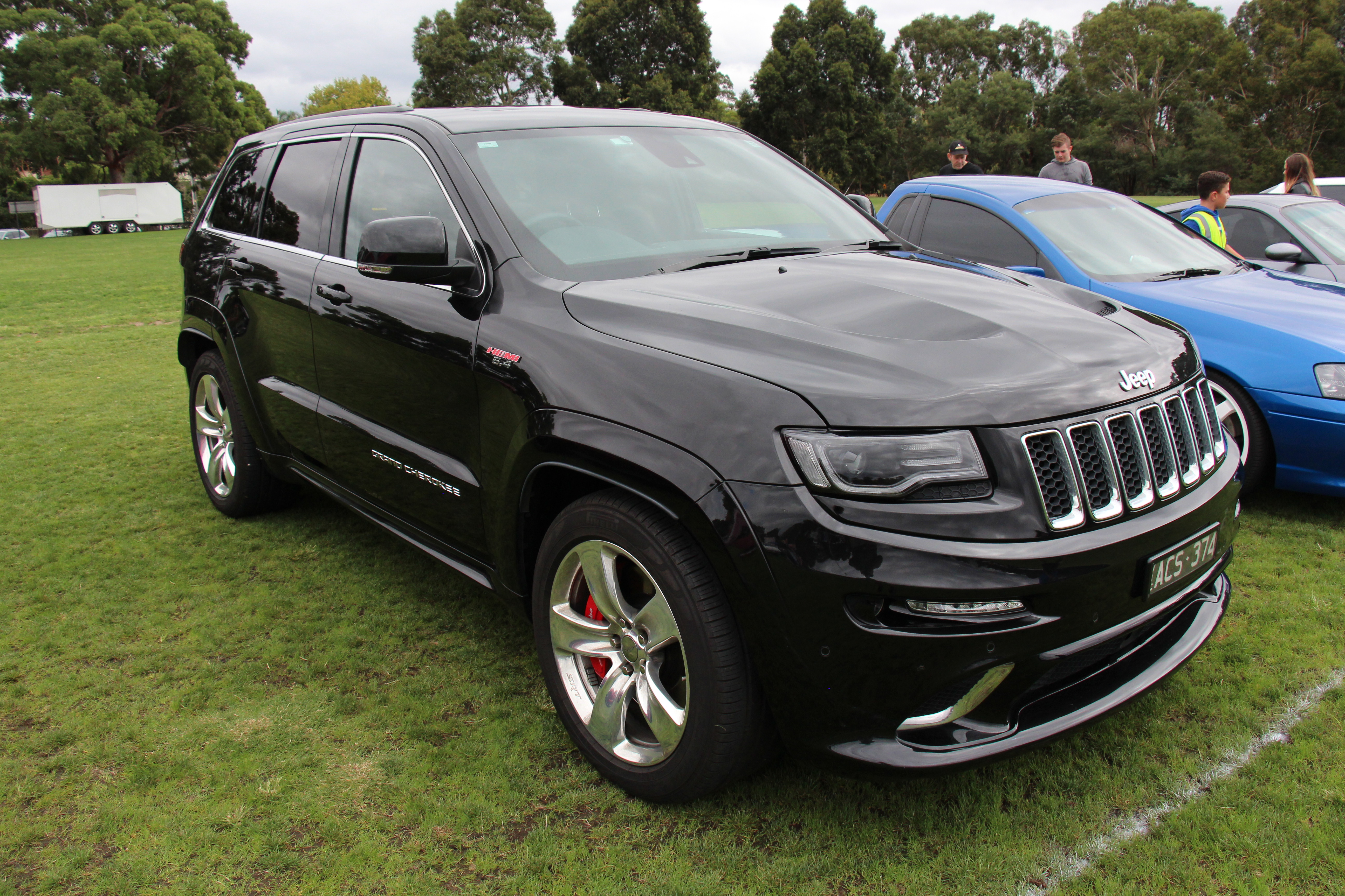 The first Jeep was the Willys Overland MB, introduced in 1941 as a reconnaissance vehicle in World War II. After the war a civilian model was made available, the CJ. The first Willys Jeep Wagon was built from 1946-65. Replaced by the SJ Wagoneer, built from 1963-91. The Grand Cherokee replaced Wangoneer in 1993. The first generation, the ZJ, built from 1993-98 The second generation, the WJ, built form 1999-2004 The third generation, the WH, built from 2005-2010. This is the 4th generation Grand Cherokee, introduced in 2011, now quite a luxurious, high tech SUV featuring independent suspension and Quadra-Drive 4WD system. 2014 saw an update model, a new front end with a revised body-coloured grille, new, smaller headlamps, and new tail lamps The models are the Laredo, the Limited, the Overland, and the Overland Summit Edition model has been renamed Summit. The performance model was the SRT Engines; 3.0 V6 diesel, petrols; 3.6 V6, 5,7 and 6.4 Hemi V8s